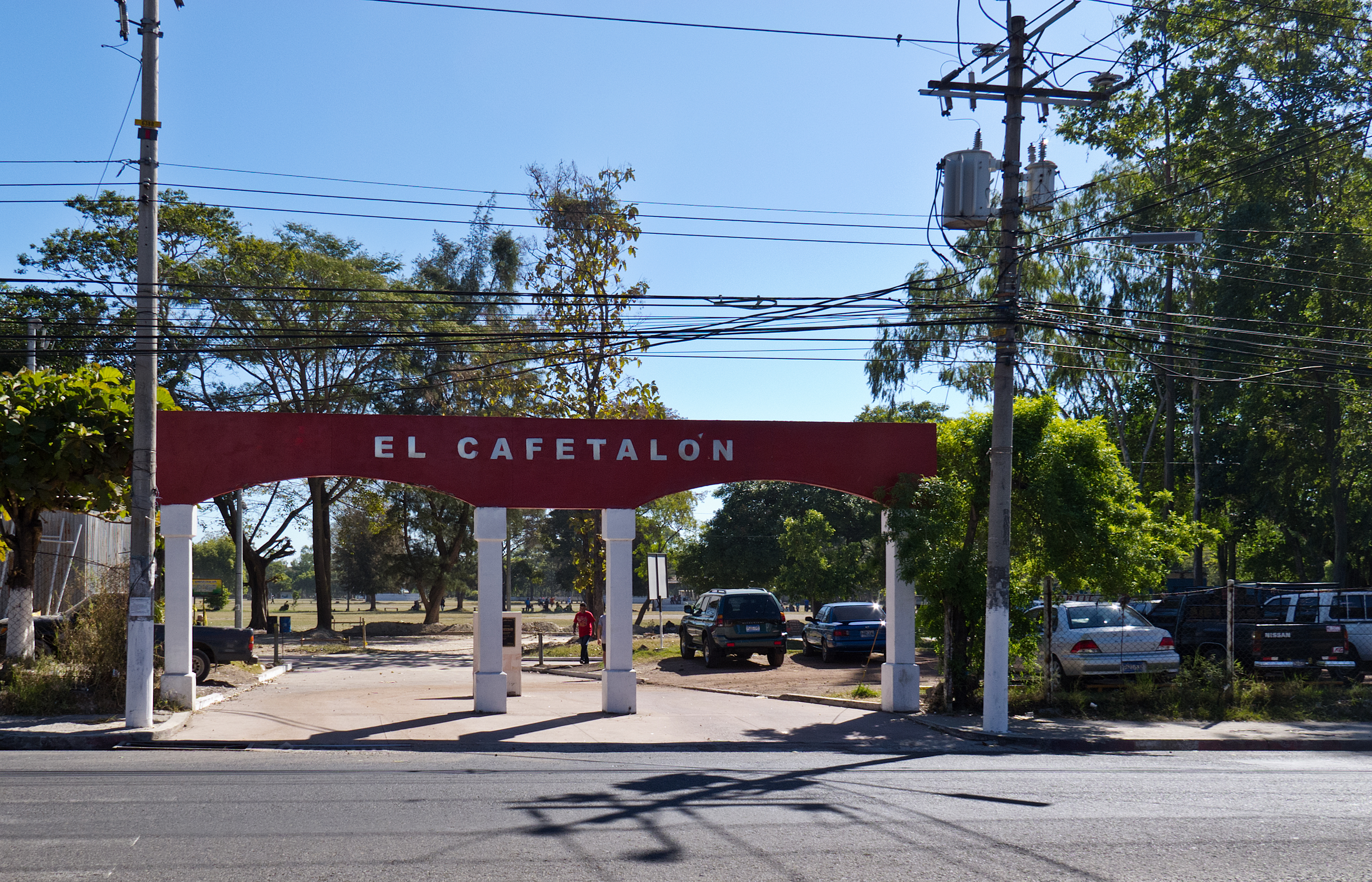 El Cafetalón, a popular sports arena and public place in Santa Tecla, El Salvador